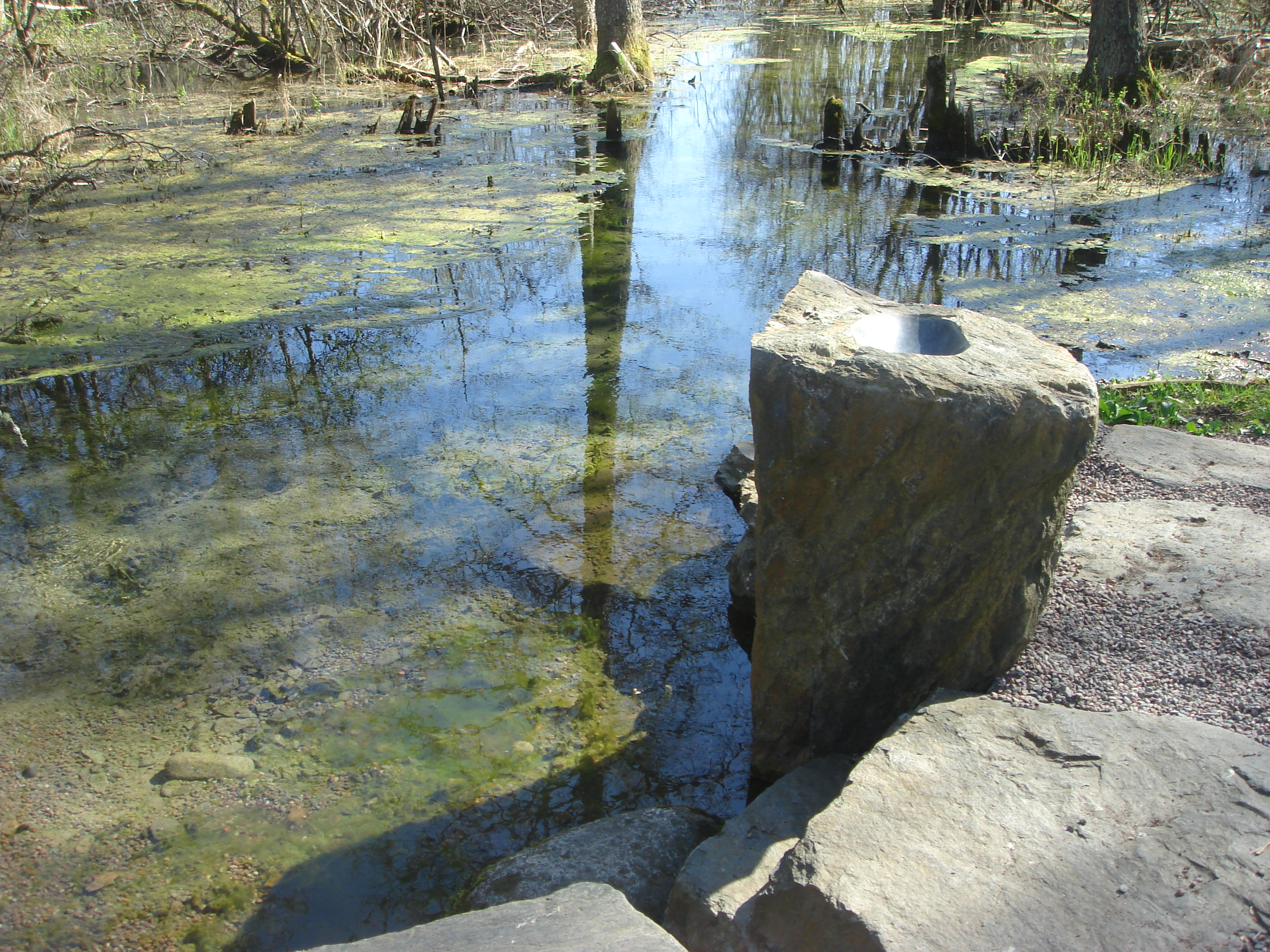 Hammarby källa. The Holy well at Hammarby church, in Uppland, Sweden